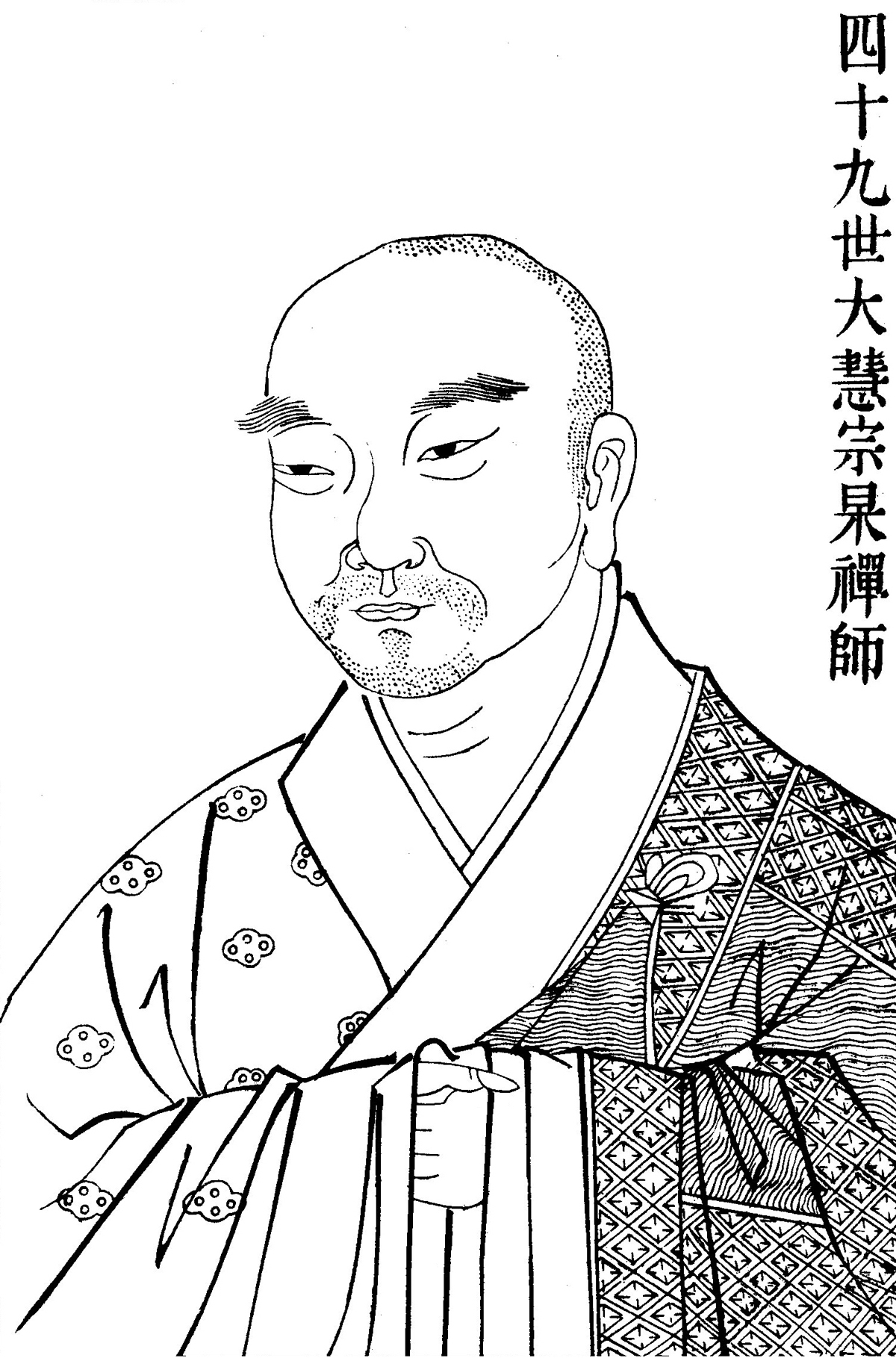 An image of Dahui Zonggao